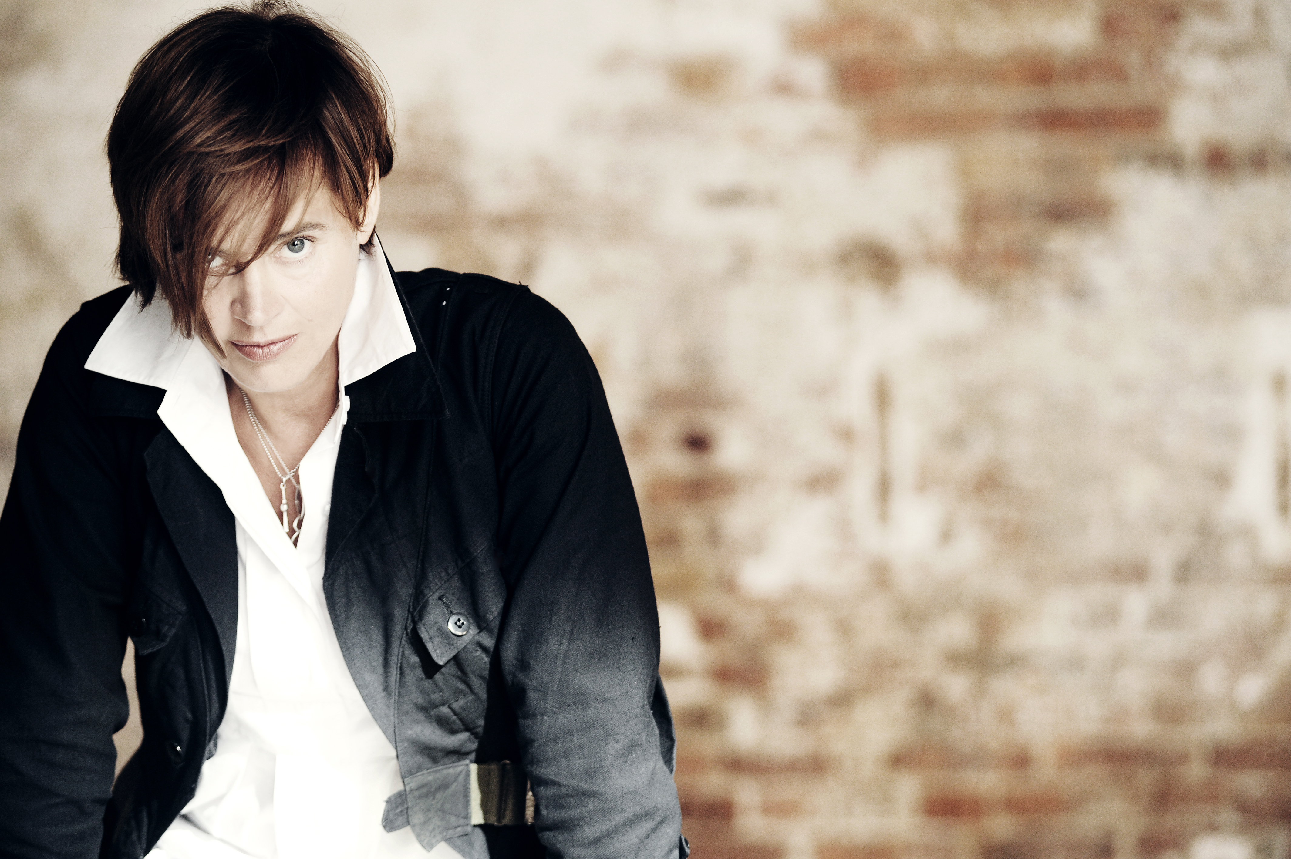 Portrait of Ulrike Haage Photographer: Thomas Nitz